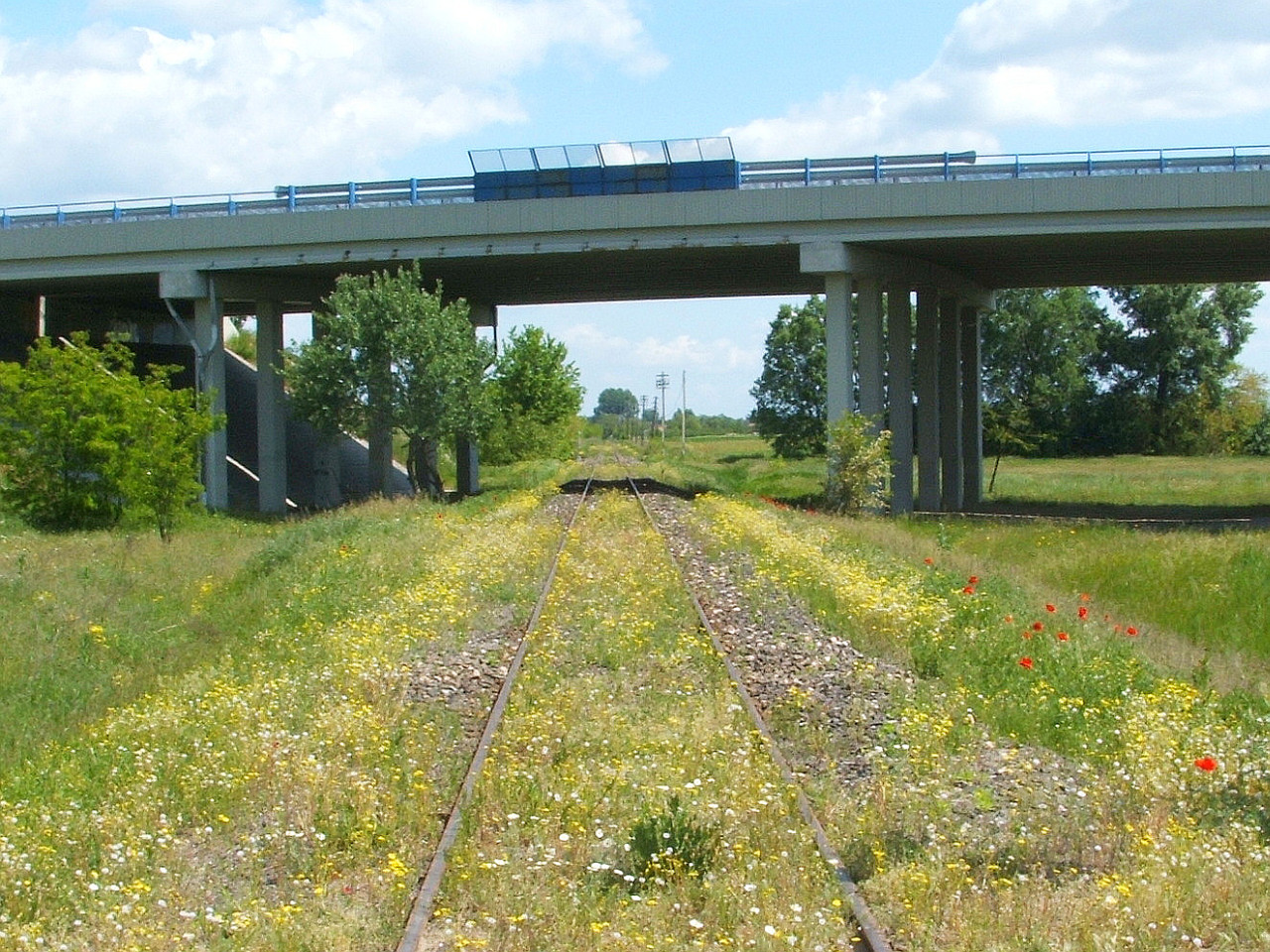 Bridge of the M5 motorway over the Fülöpszállás–Kecskemét railway line, near Kecskemét, Hungary